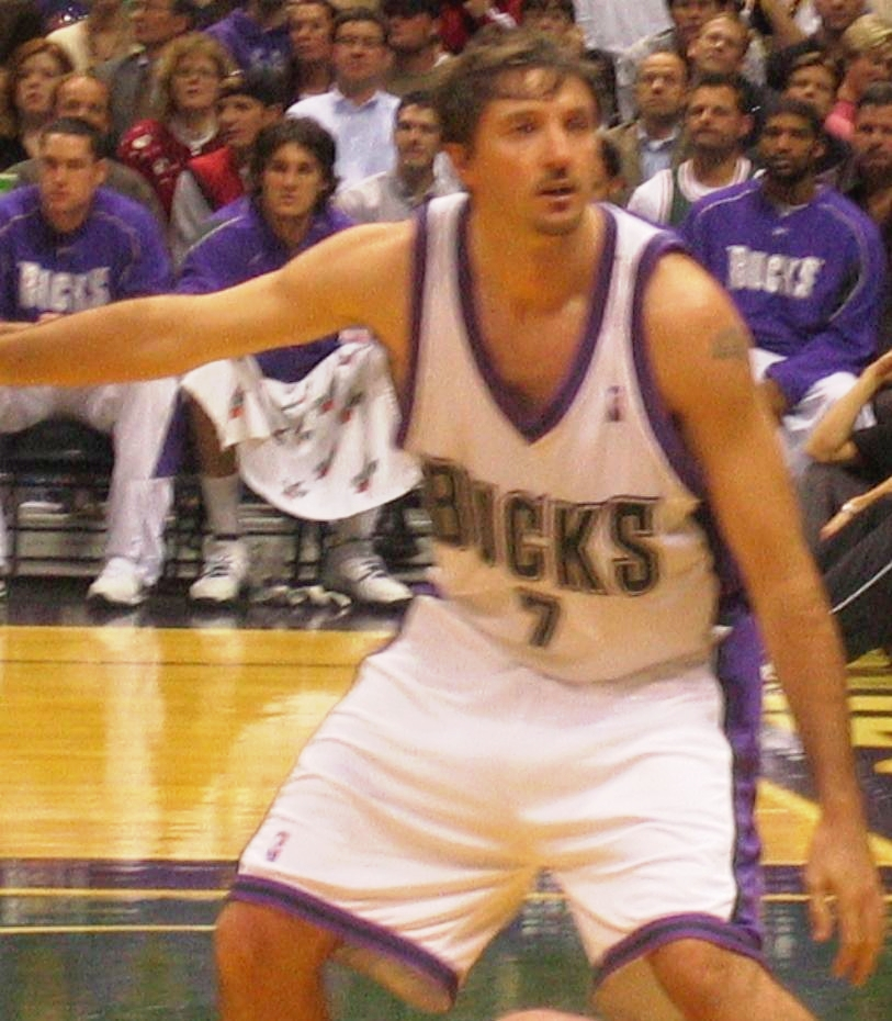 Kukoc bending those knees. (cropped version)